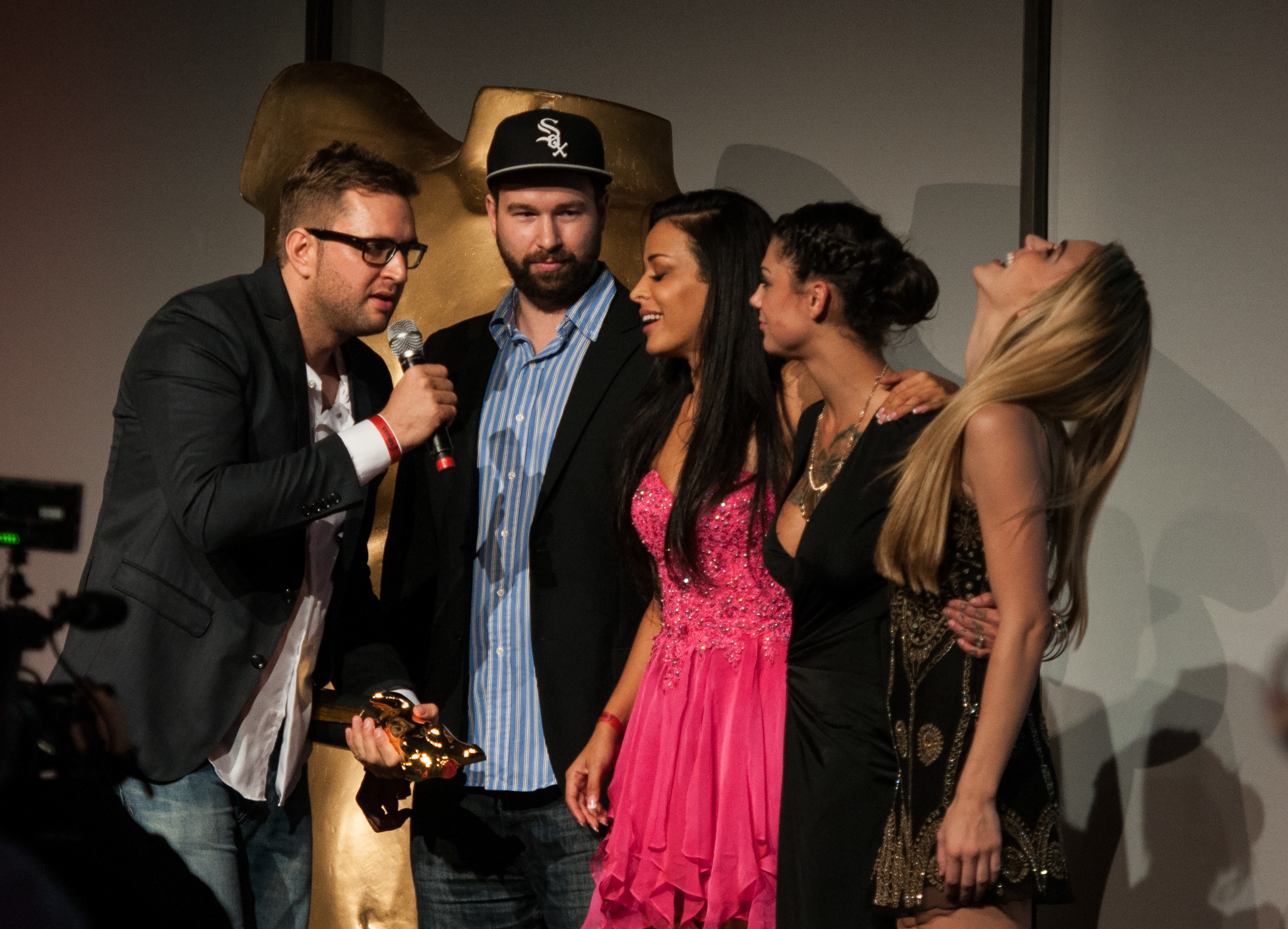 René Schwuchow, Bonnie Rotten, others at the ceremony of the Venus Awards 2014, Berlin